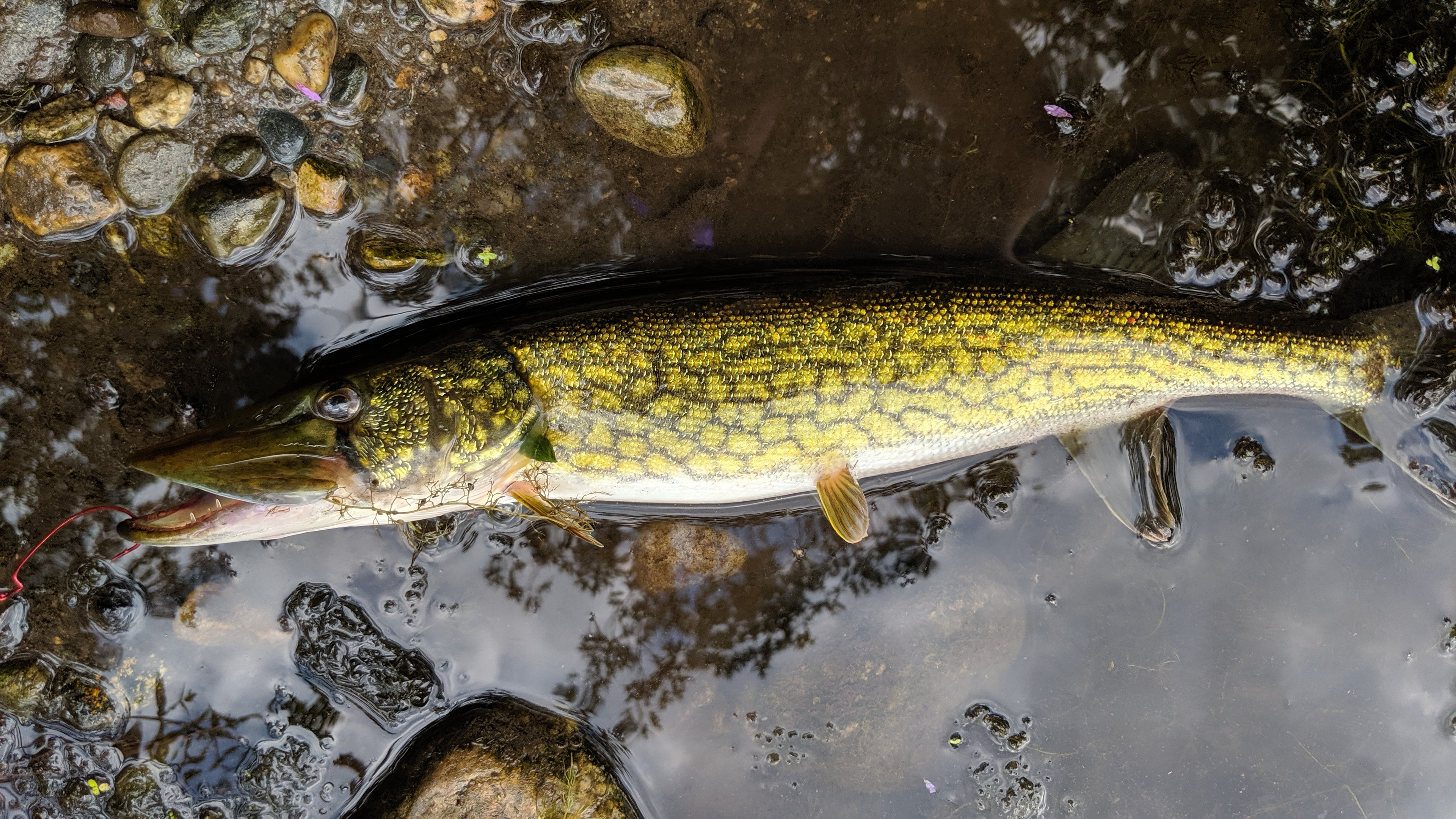 A 2lb chain pickerel. Caught from Dyer Pond in Cranston, RI in September 2019